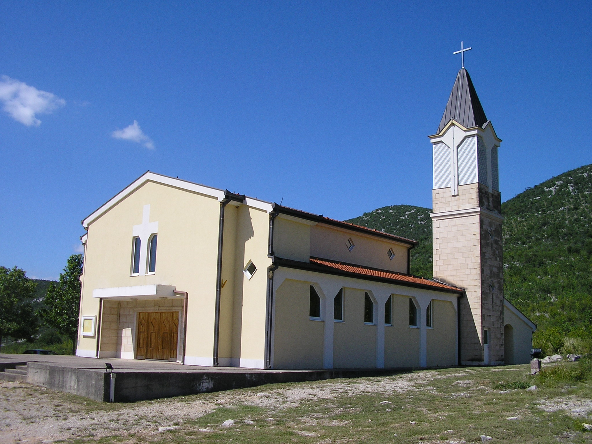 Saint Anne's church in Zvirovići